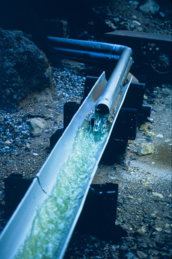 AMD coming from Iron Mountain Mine, CA